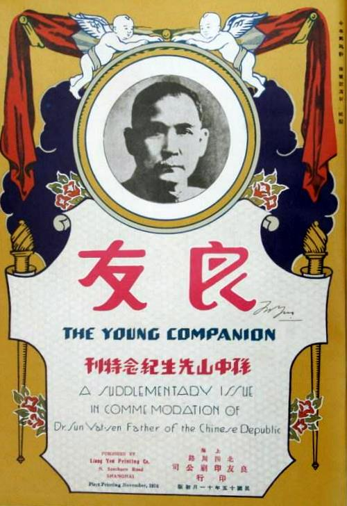 Liangyou Pictorial, November 1926 special edition in memory of Sun Yat-sen.